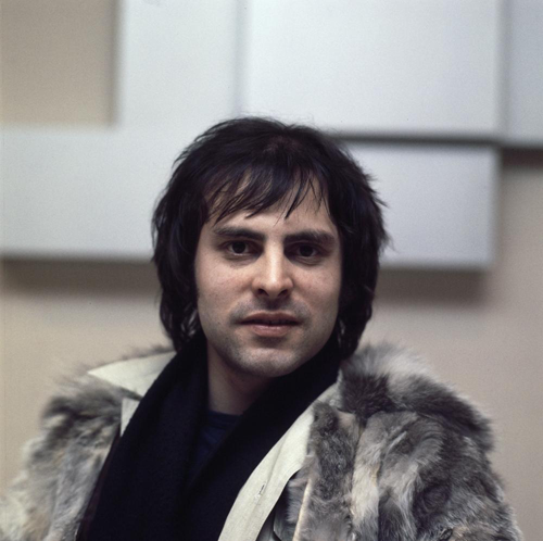 Portrait of Pierre Rapsat at the day of the Eurovision Song Contest 1976